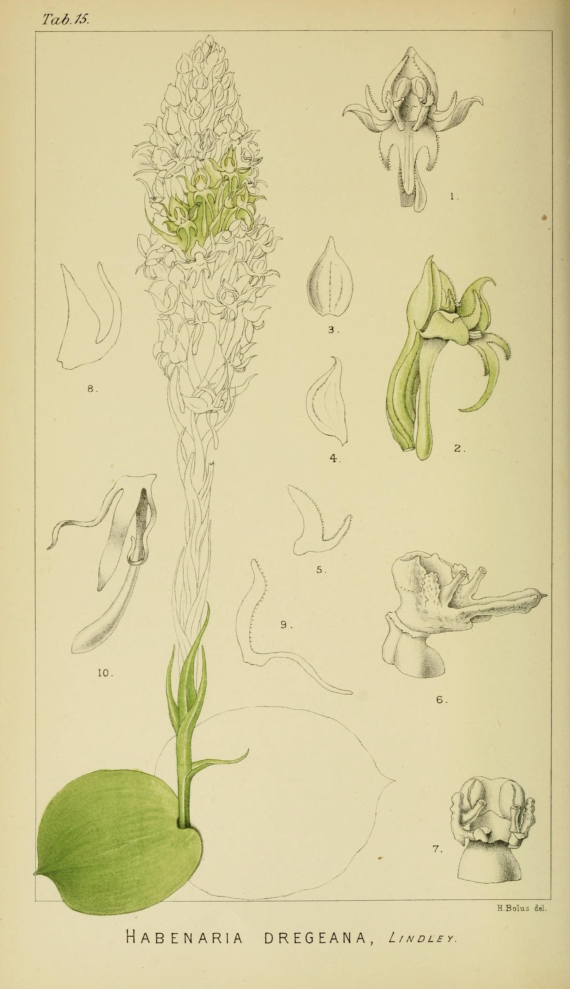 TcobJS. HaBENARIA DREGEANA, L/ndley.